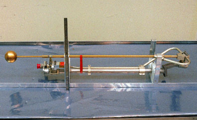 Part of the RPWS instrument of Cassini